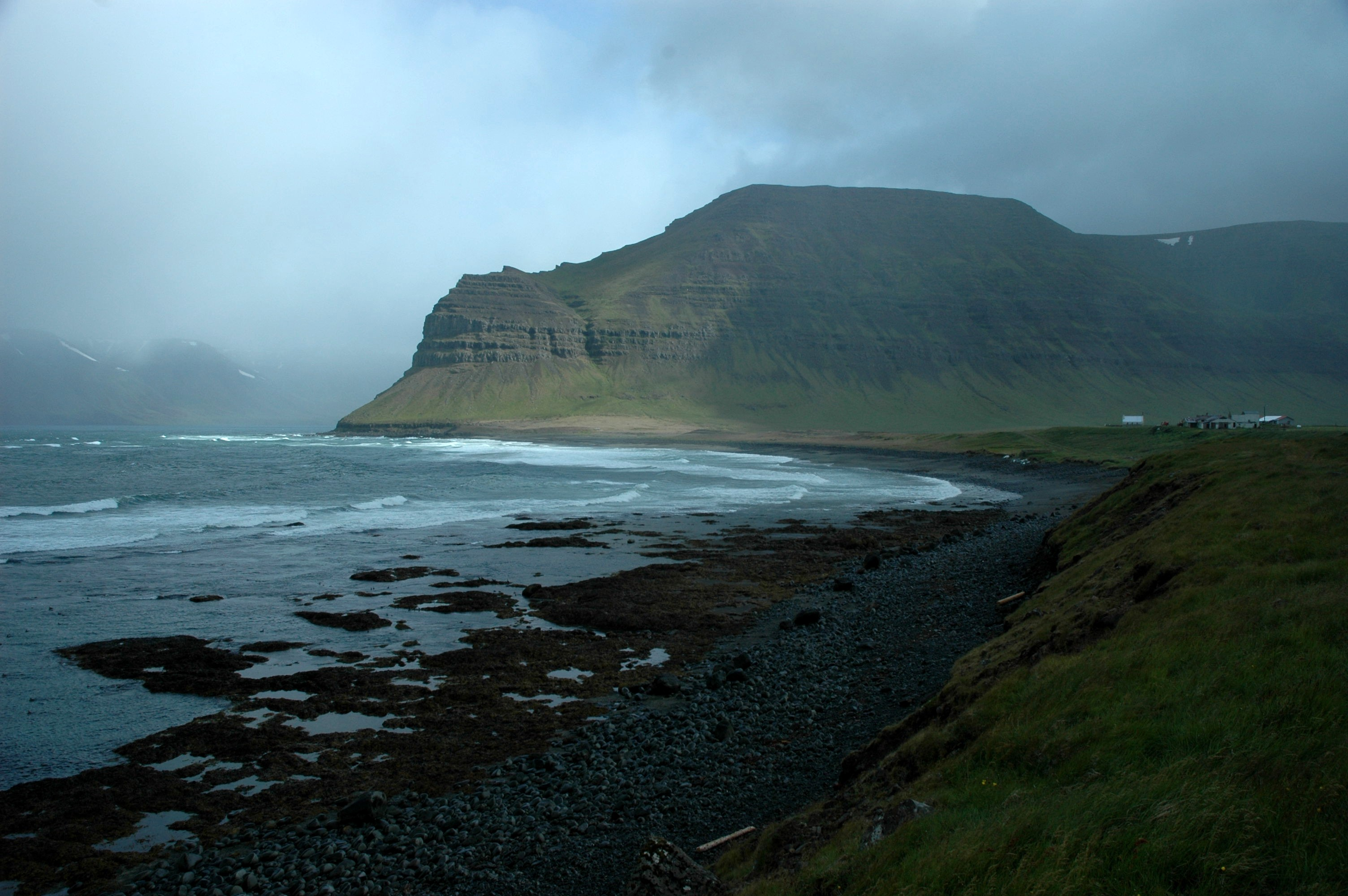 Ingjaldssandur